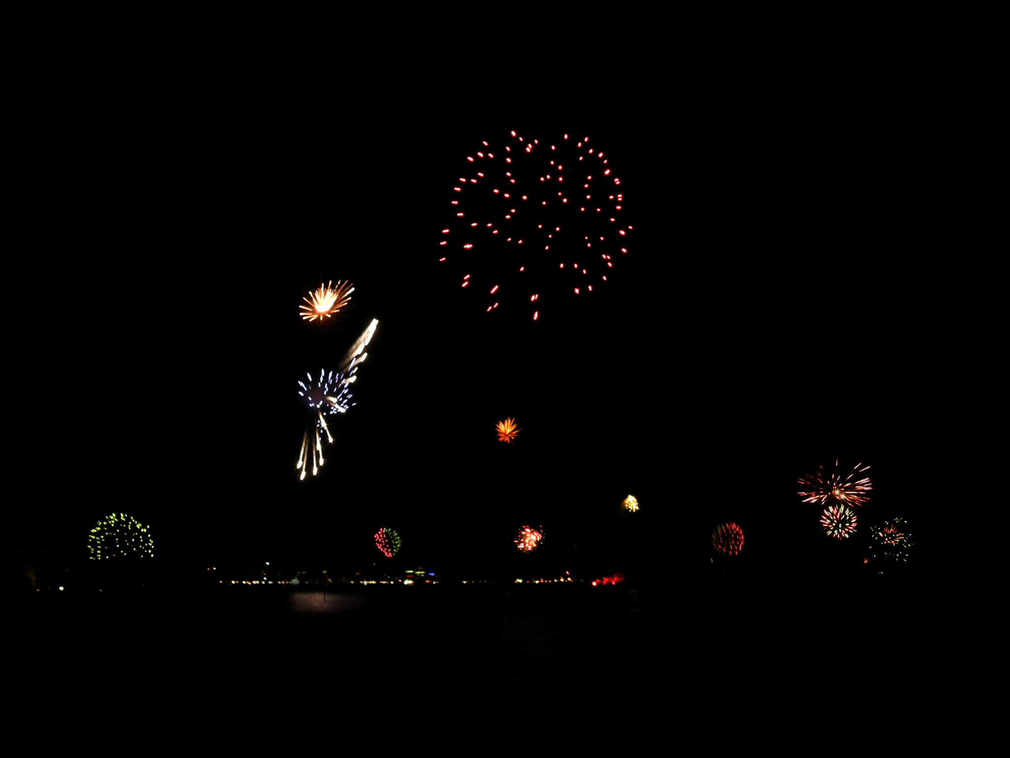 Fireworks during Gradisca fest - Rimini, Italy - 21st June 2008